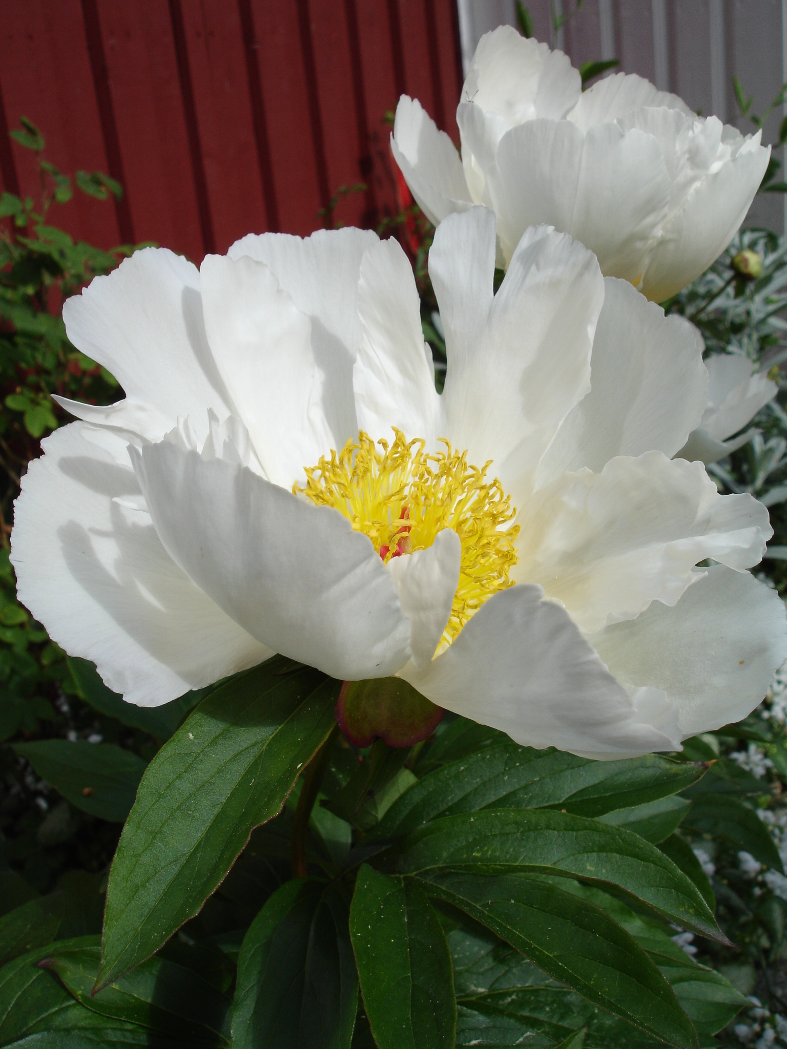 Paeonia lactiflora 'White Wings'